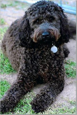 Photograph of black labradoodle